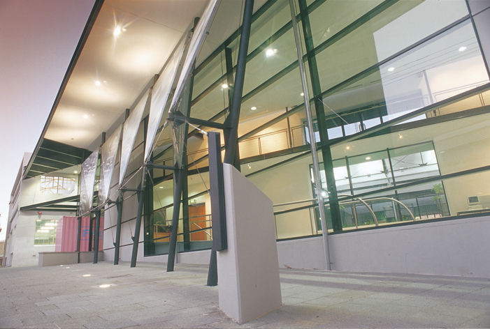 12 Aberdeen St, Northbridge. The entry to Central's creative arts studios.